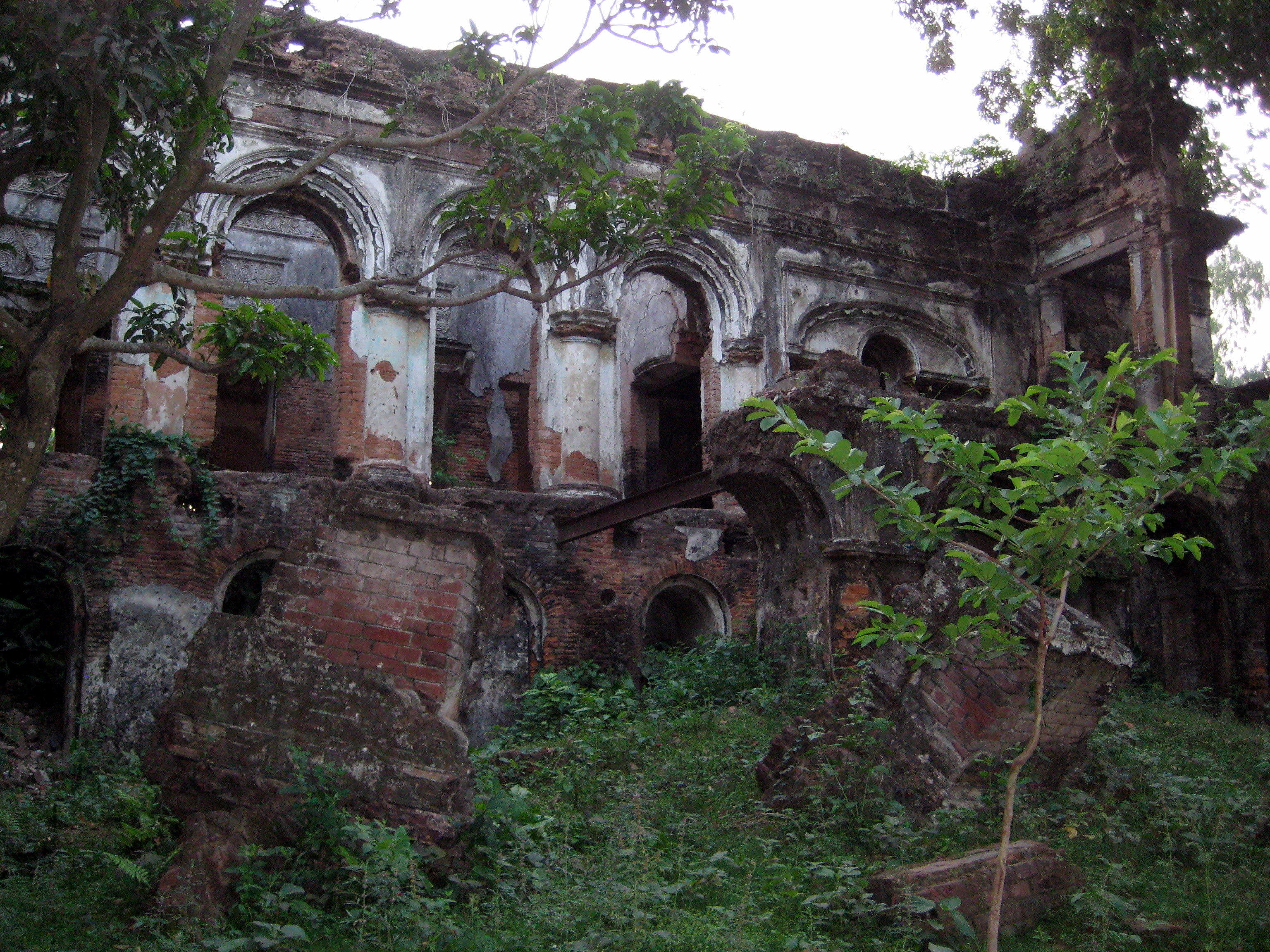 Tales of history says that Raja Dinaj or Dinaraj is the founder of the Dinajpur Rajbari. But others say that after usurping the Ilyas Shahi rule, the famous Raja Ganesh of the early 15th century was the real founder of this house . At the end of the 17th century Srimanta Dutta Chaudhury became the zamindar of Dinajpur and after him, his sister's son Sukhdeva Ghosh inherited the property as Srimanta's son had a premature death.